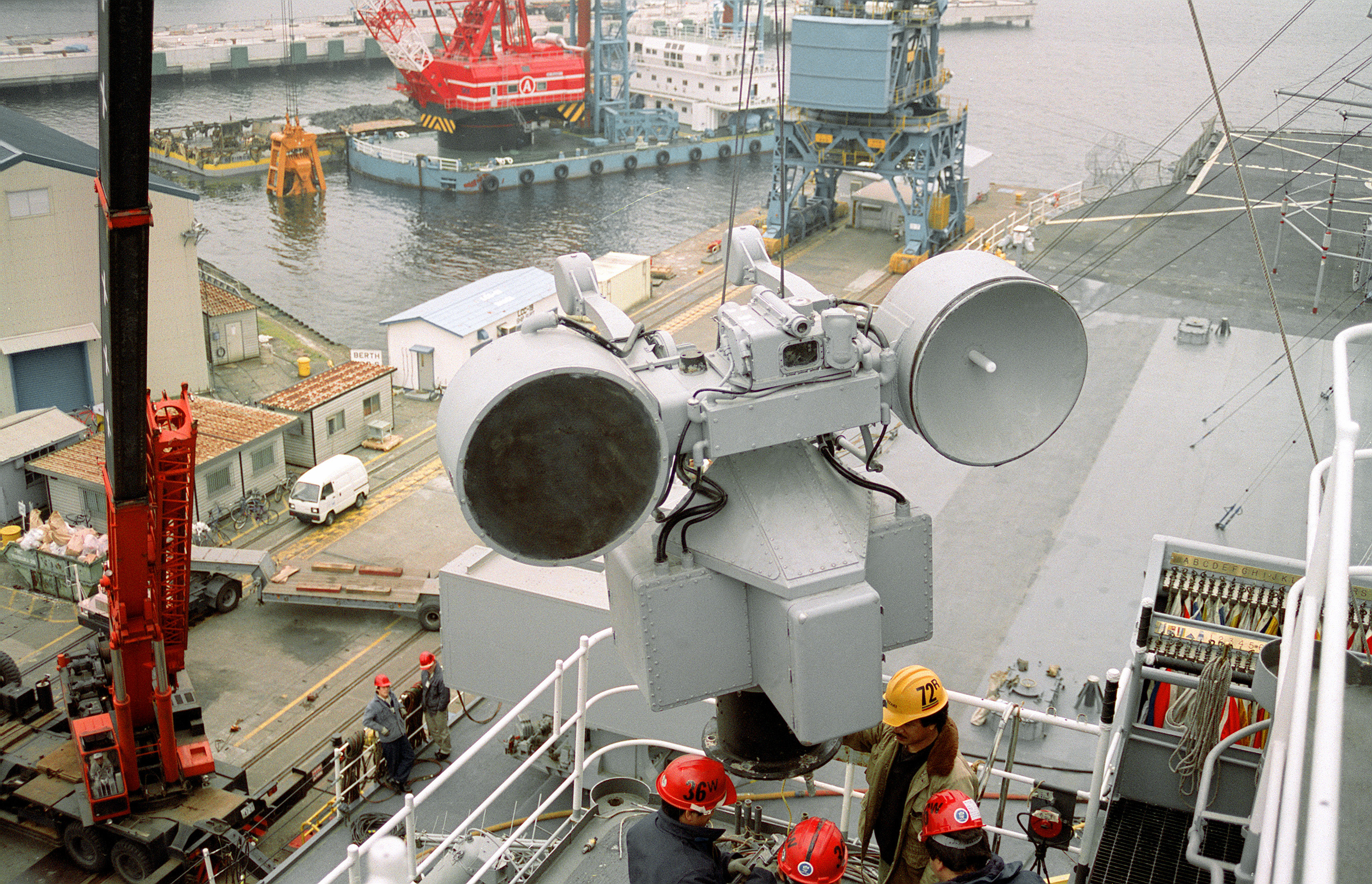 A Mark 115 fire control director for the Mark 25 SEA SPARROW missile launcher is being removed from the deck of the amphibious command ship USS BLUE RIDGE (LCC-19) during recent modifications.